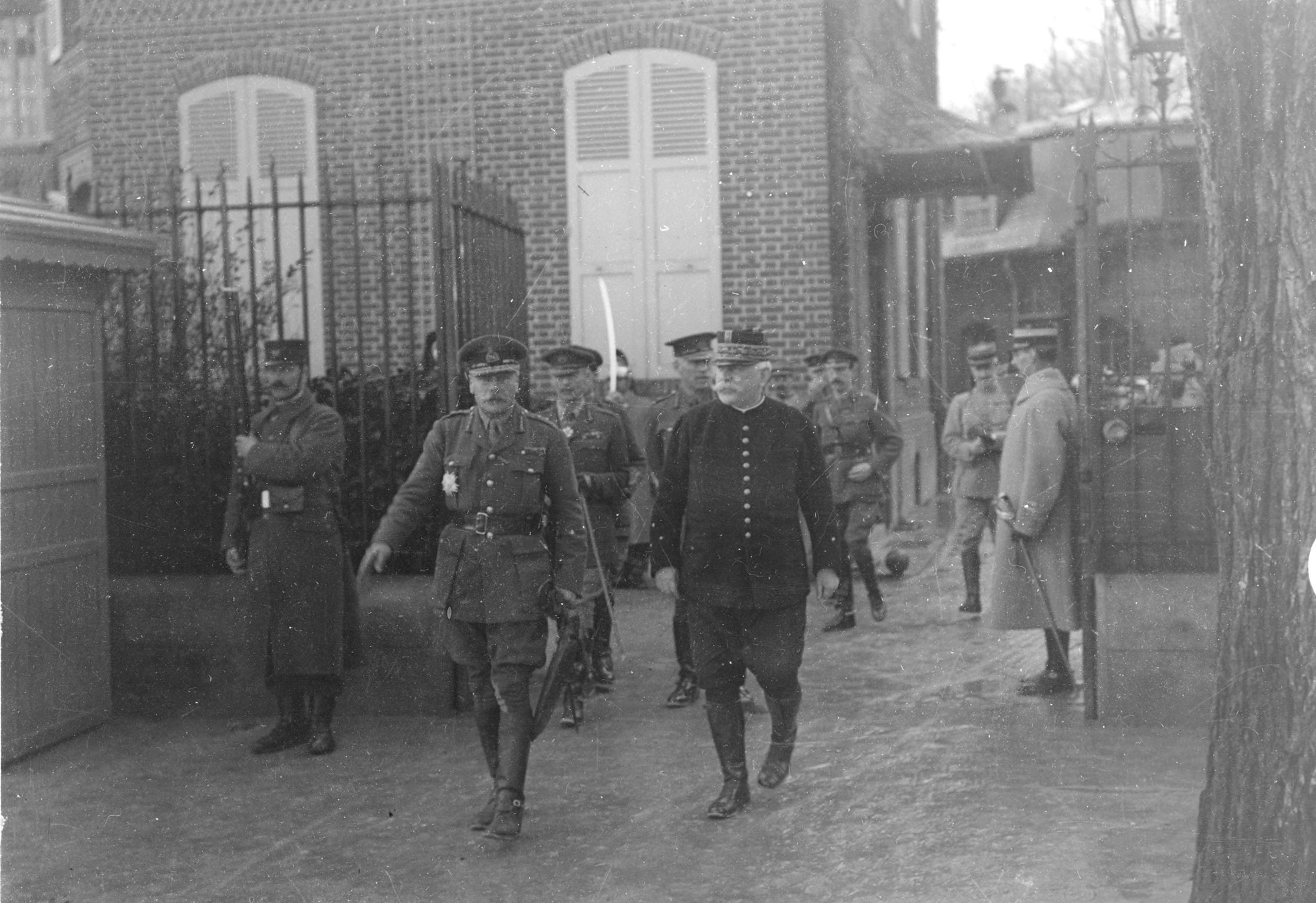 Haig and Joffre at Chantilly, France, 1915. Field Marshal (Earl) Haig (1861-1928) and the French general Joseph Joffre (1852-1931) walking out of a French military-controlled building in Chantilly, France in December 1915. It is probable that this was taken on the occasion of the second Inter-Allied Conference at Chantilly. There is a French press stamp. The conference, which took place not long after Haig became the British Commander-in-Chief, agreed that in future Allied attacks should be more co-ordinated. [Original reads: 'Dec.1915. Le Gal. Joffre et le Gal. Douglas Haig. Chantilly.']